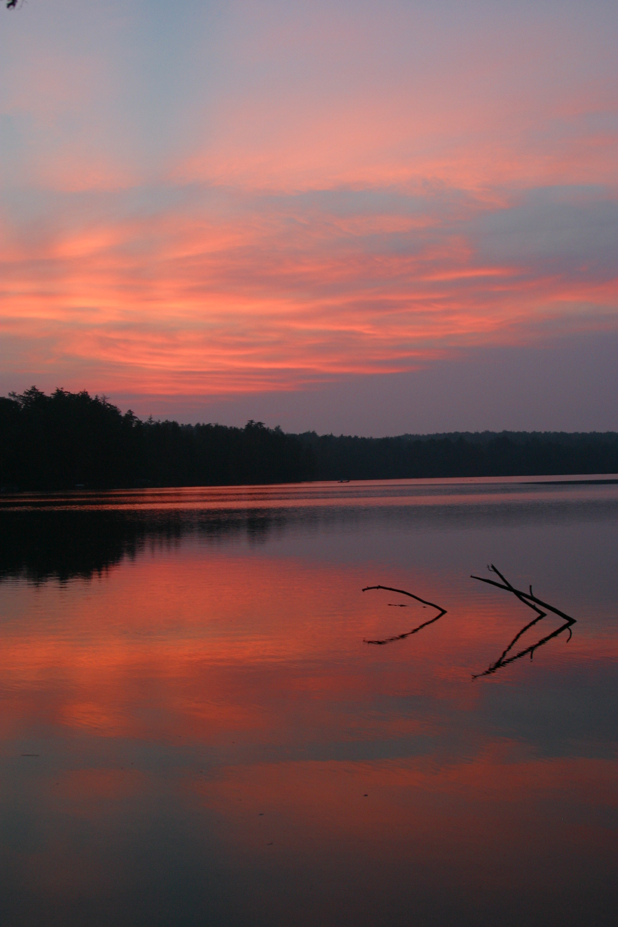 Sunset at Ganoga Lake in Colley Township, Sullivan County, Pennsylvania in the United States.